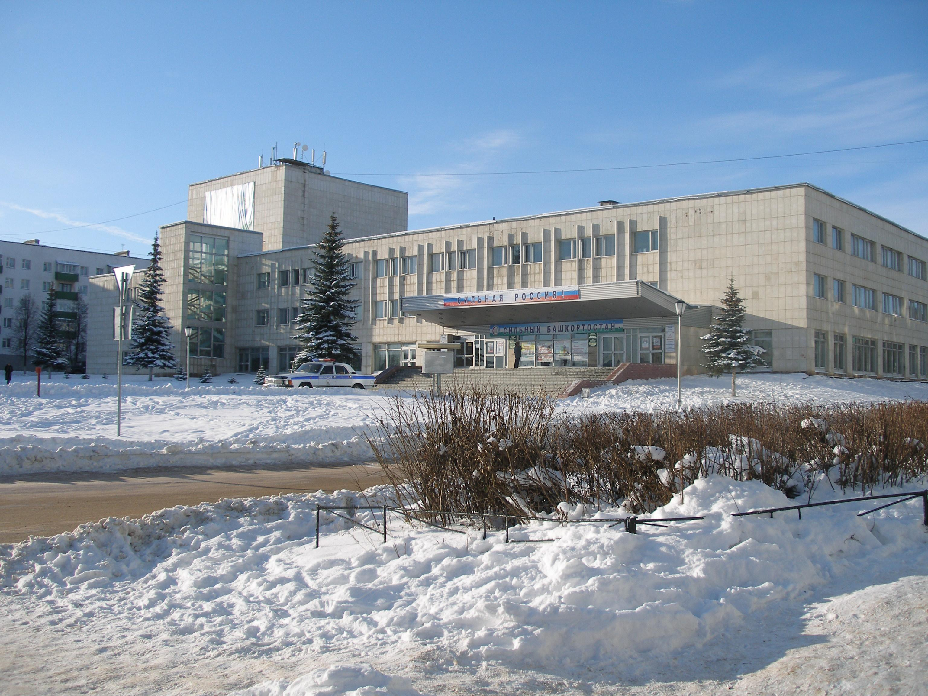 "House of Culture and Technical" (Дом Культуры и Техники)